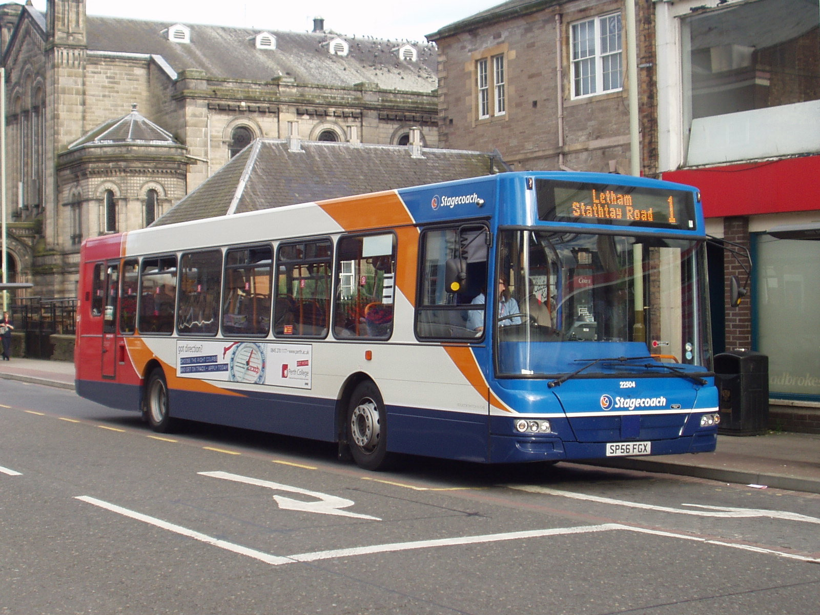 MAN 18.220 with East Lancs bodywork operated by Stagecoach in Perth, Scotland.